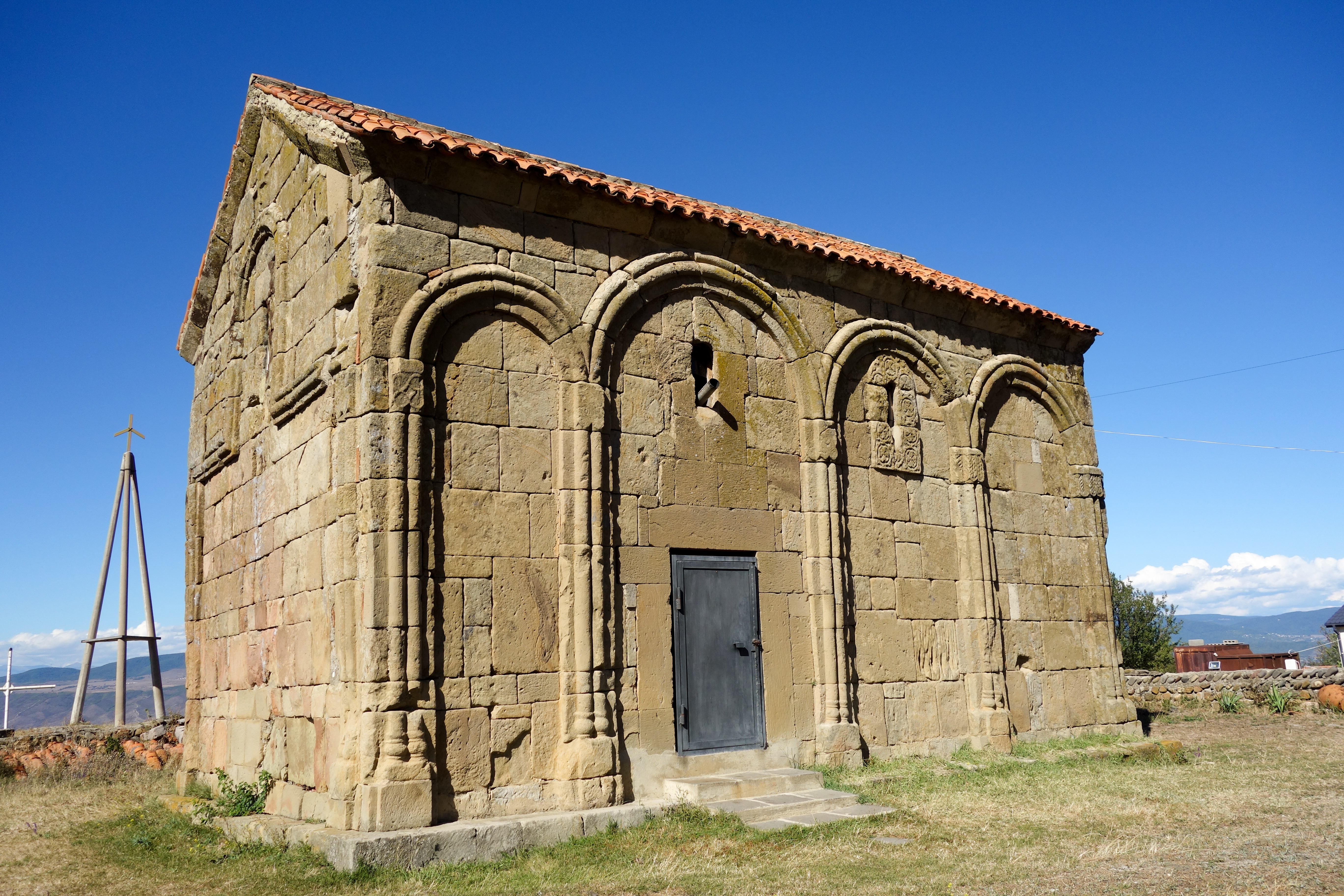 Trinity Church, Tserovani, Mtskheta-Mtianeti, Georgia